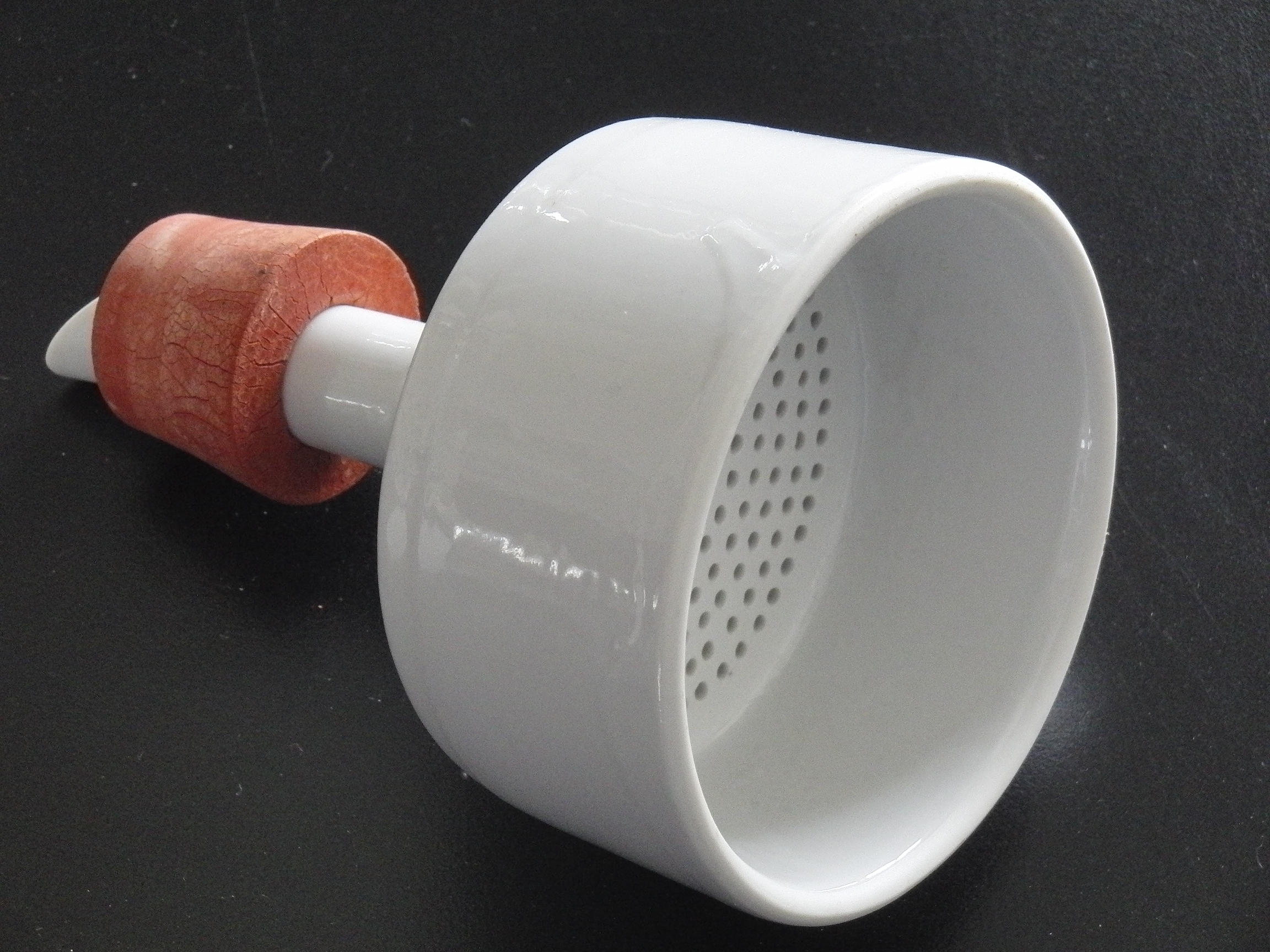 Büchner funnel.